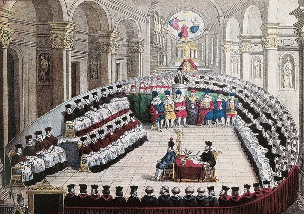 fr: Trente, qui s’ouvrit en 1545 et dura dix-huit ans, est un concile à la fois doctrinal et pastoral. / ©Aisa/Leemage